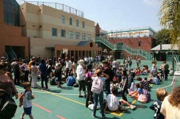 The Center For Early Education Main Playground